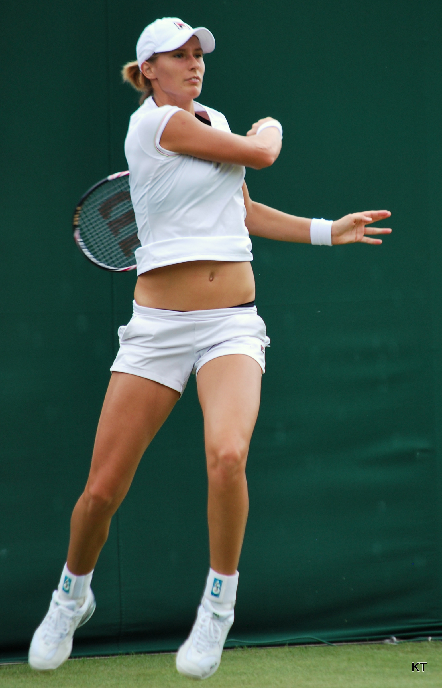 Polona Hercog during her first round match with Kristyna Pliskova on Day 2 of Wimbledon 2012.